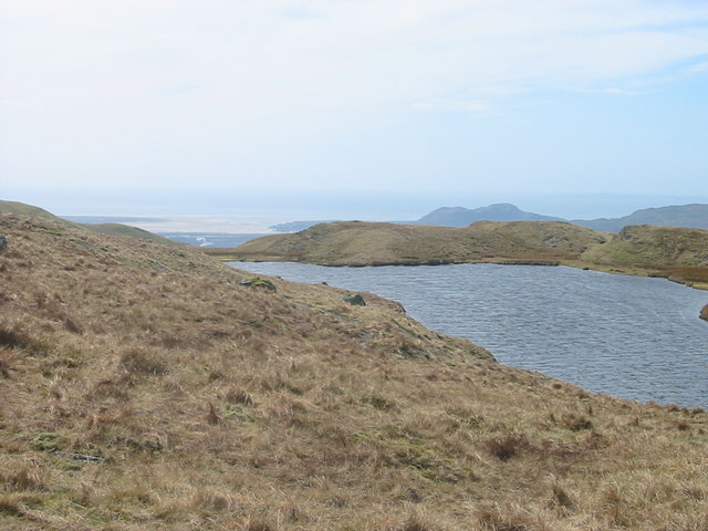 Llynnau Diffwys High up under the shadow of Moelwyn Mawr and above the village of Croesor looking out to the estuary of the Afon Dwyryd and Porthmadog.